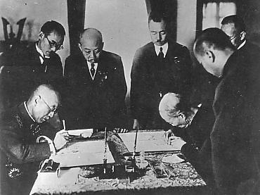 Signature of Japan-Manchukuo Protocol